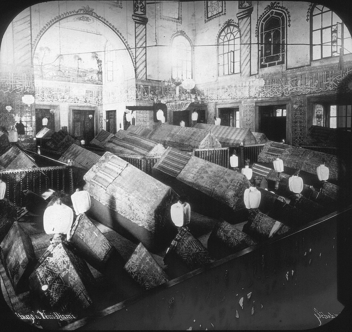 Valideh Mosque, Istanbul, Turkey, 1903. Survey 1903. Constantinople; Tombs of the Sultans; Muhammad IV (d. 1687), Mustafa II (d. 1703), Ahmed III (d. 1730), Mahmud I (d. 1754), Osman III (d. 1757); inner room is the tomb of Turkham, and tombs of princes and princesses; Valideh Sultan Turbesi. Yeni; box 53, set e. Brooklyn Museum Archives, Goodyear Archival Collection (S03_06_01_003 image 1773). It helps us to know how our visitors work with our images, so if you use it, we'd love to know how! Drop us a line by leaving a comment here or email our archivist